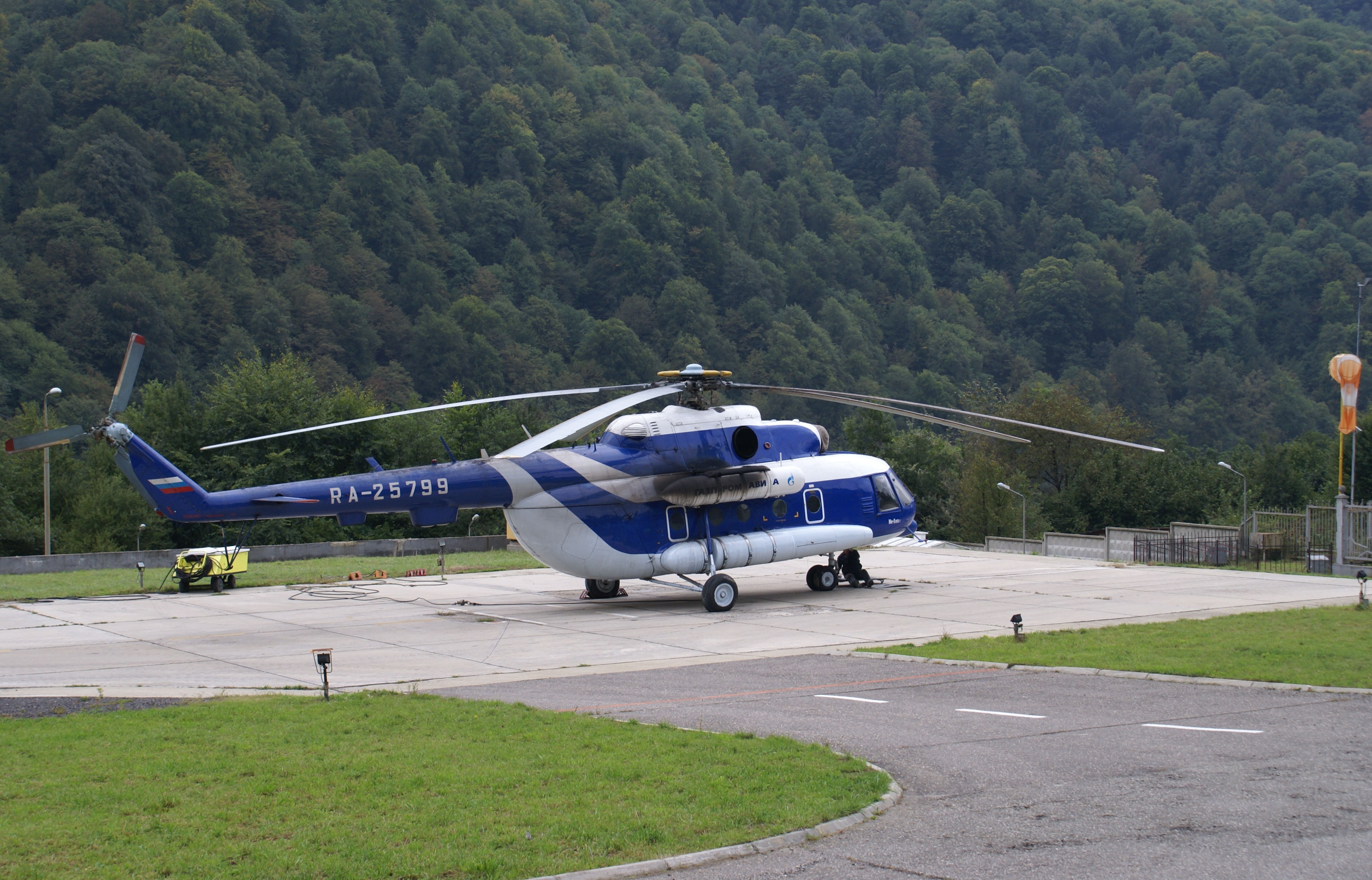 Mil Mi-8MTV-1 (RA-25799) of Gazpromavia.